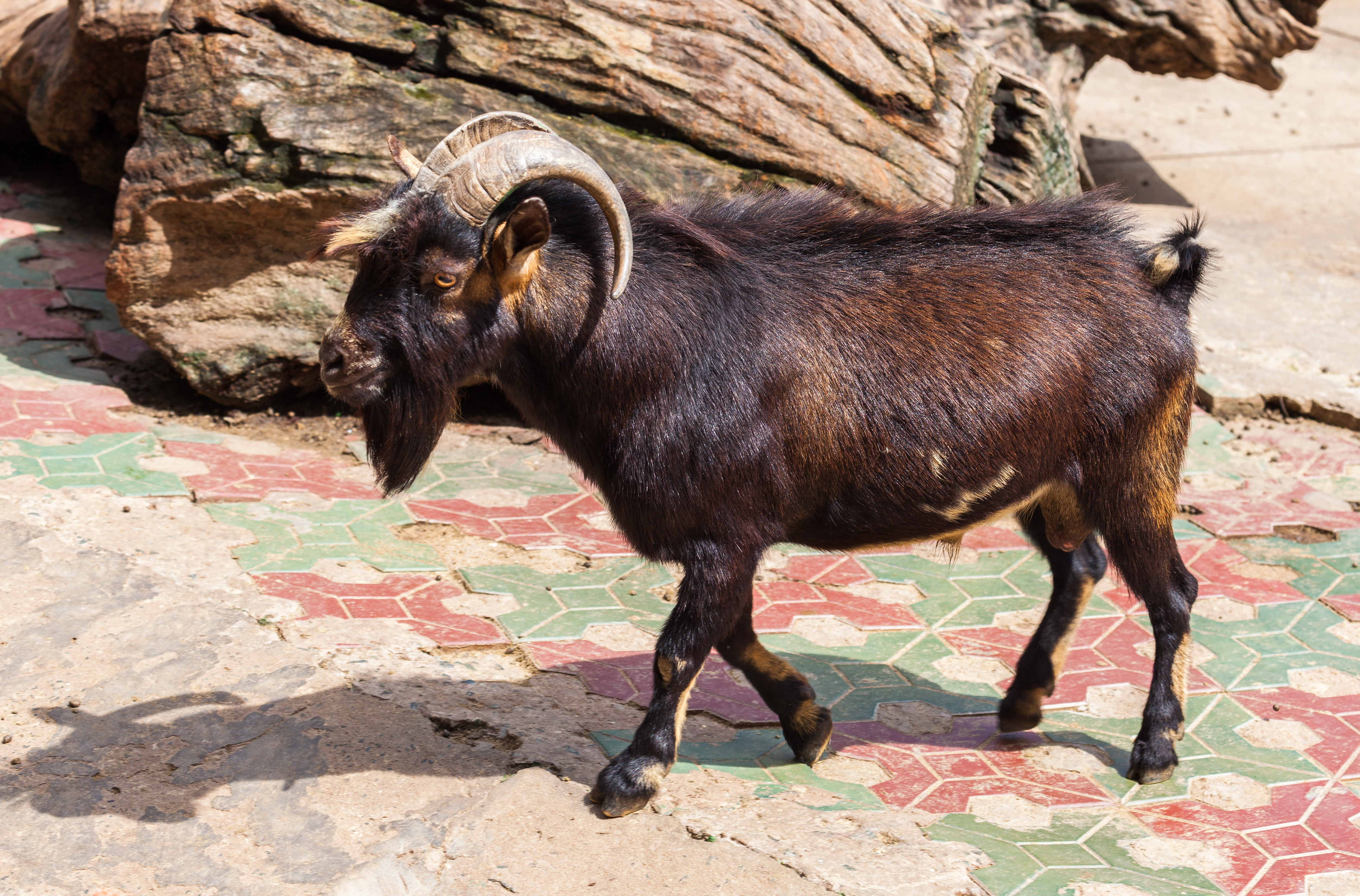 Goat (Capra aegagrus hircus), Ho Chi Minh City Zoo, Vietnam